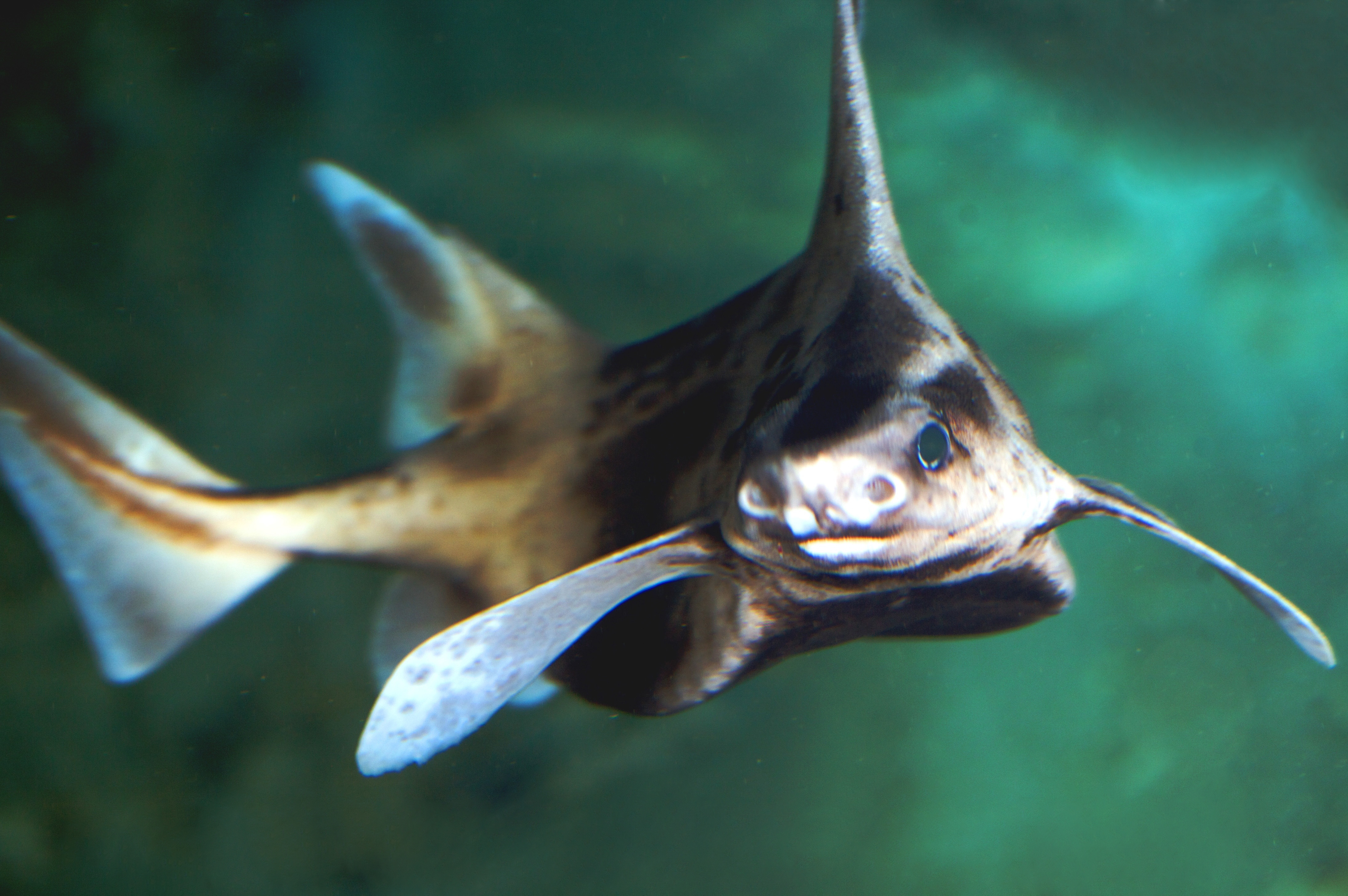 Picture of Caribbean roughshark (Oxynotus caribbaeus) taken from Karl Stanley's submersible Idabel off Roatan, Honduras.